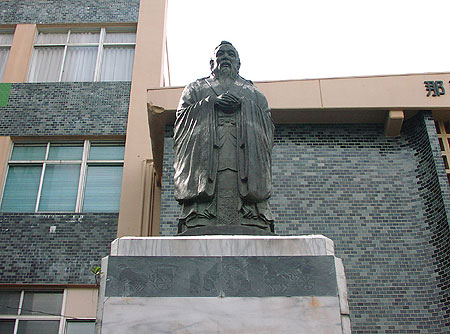 Confucius Statue in Naha, Okinawa Prefecture, Japan.